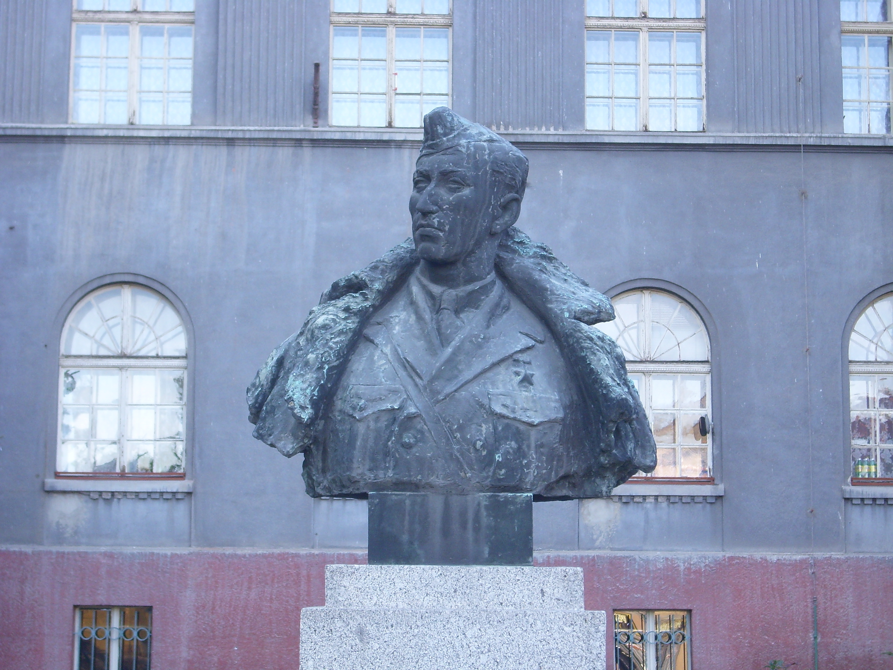 Bust of Antonín Sochor in Duchcov in Czech Republic